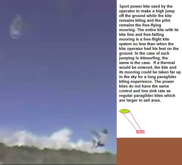 Clip from the video: Powerkite / power-kite demonstration on the French Atlantic coast. Shot on a Panasonic NV GS200 digital video camera. Prepared using FORscene video editing software. Summer 2006. Kite image was by Mark Kilby. He gave GFDL permission. The clip of the jump demonstrated accepted free-flying as kiting in the power-kite culture.